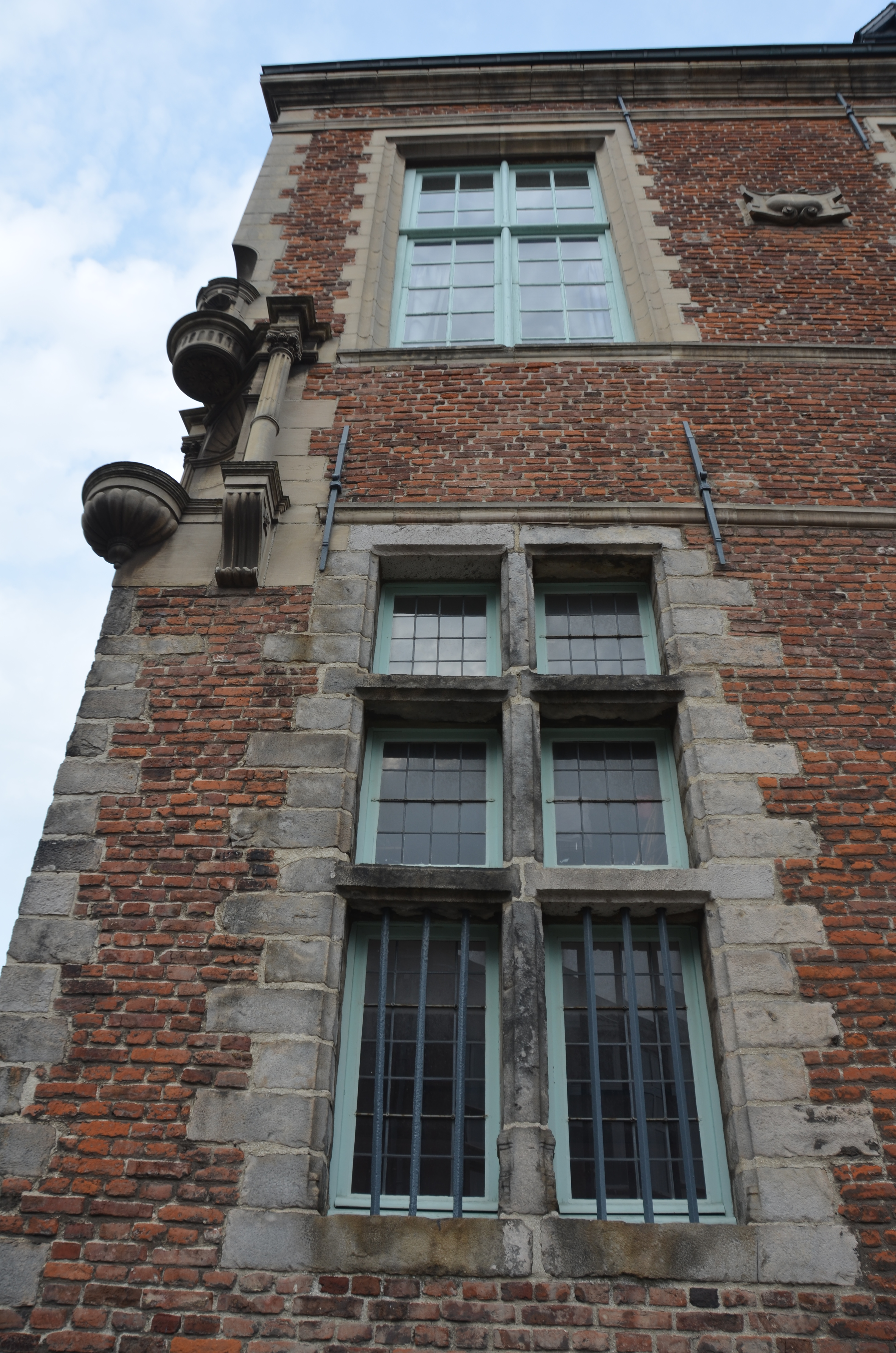 The Anchin halls of Douai (Nord, France).